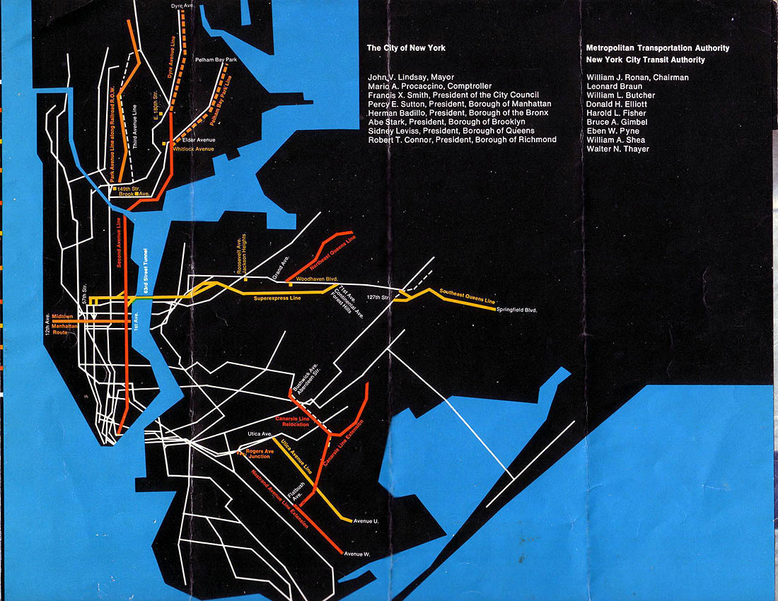 This is part of a brochure detailing the new routes that would be constructed under the Metropolitan Transportation Authority's Program for Action